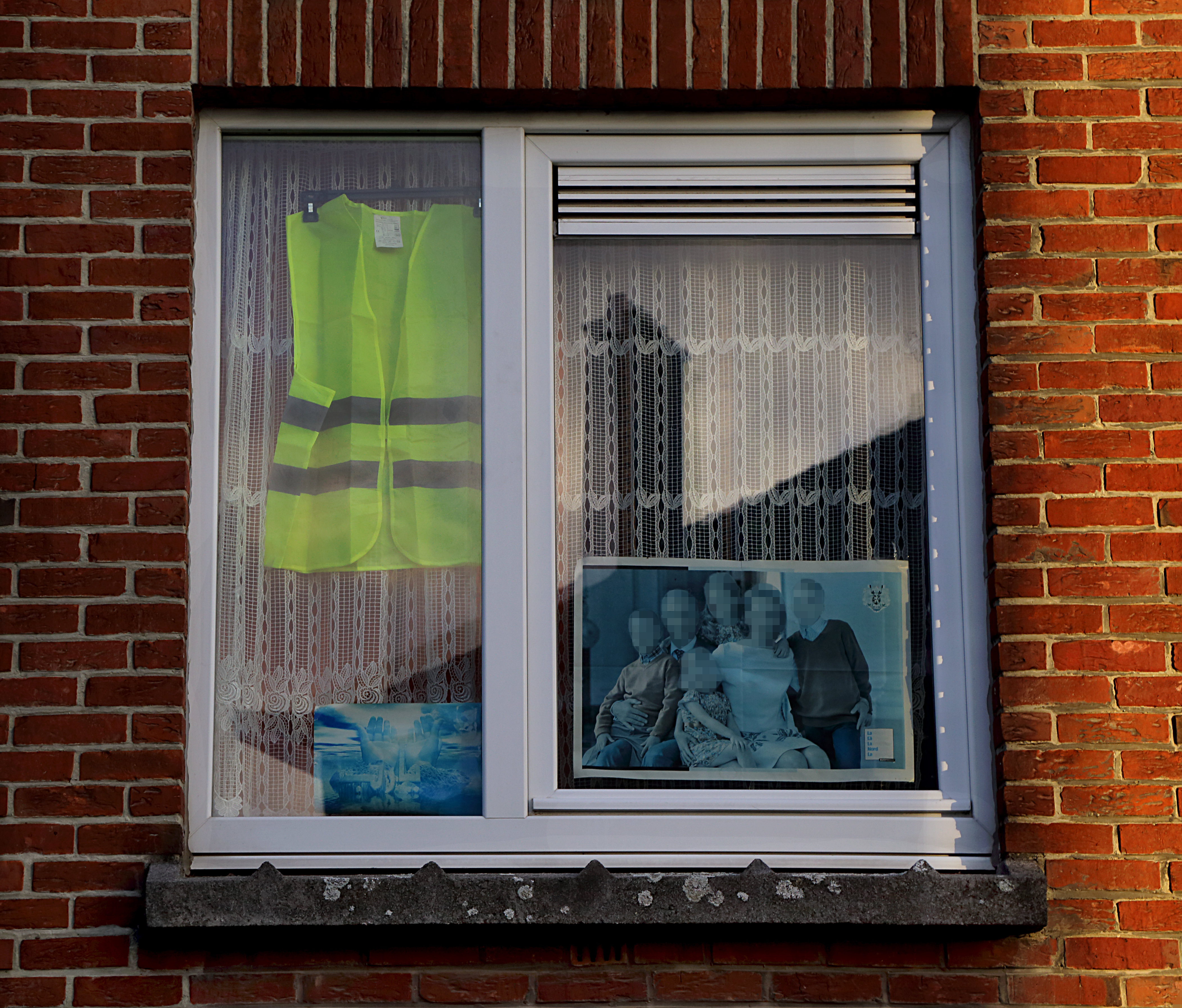 A yellow vest at a window in Mouscron, Belgium, (faces are blurred for reasons of copyright).